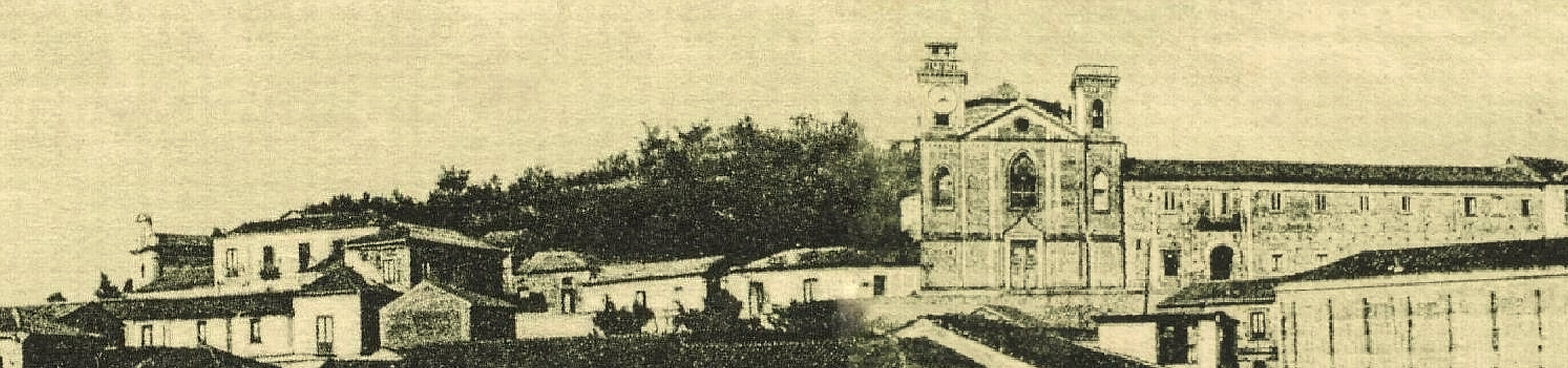 Laureana di Borrello, Beginning of 900 - via belvedere